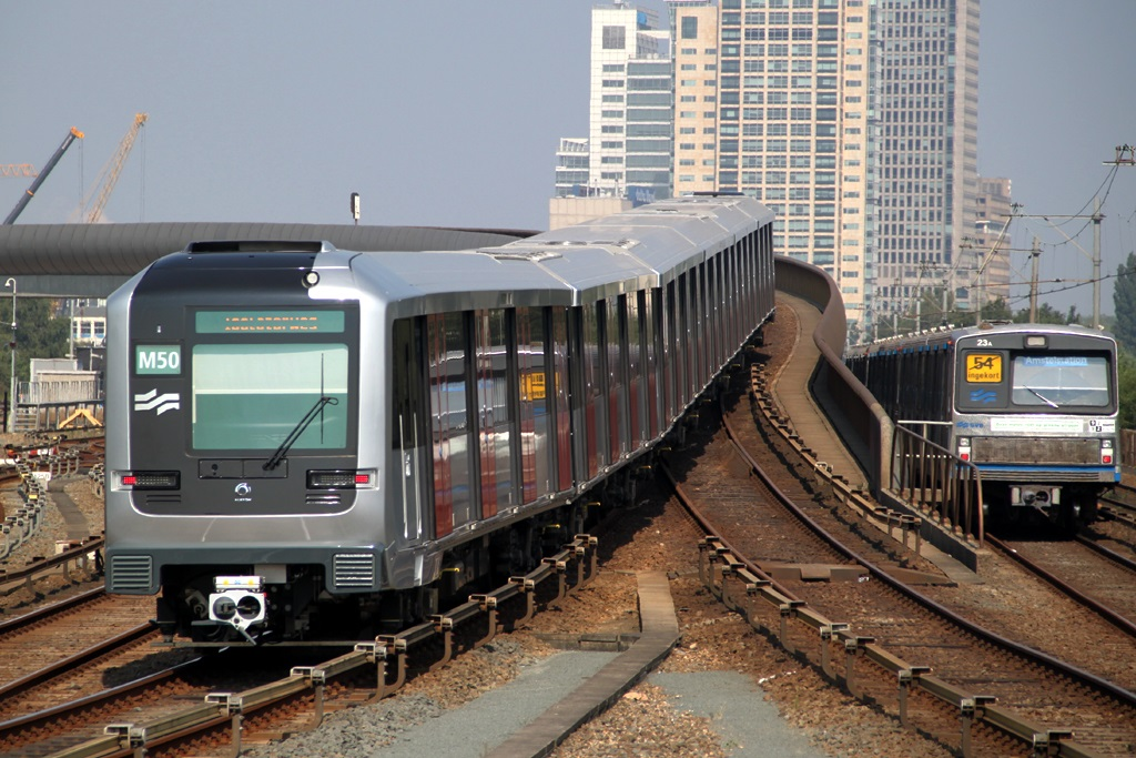 On the 26th of June 2013 the first two metrotrains of the new type M5 (member of the Alstom Metropolis-family) entered service on metrolijn M50, the Ringline. On this photo train 109/110 just departed Station Van der Madeweg in Duivendrecht on its way to its terminus Isolatorweg.